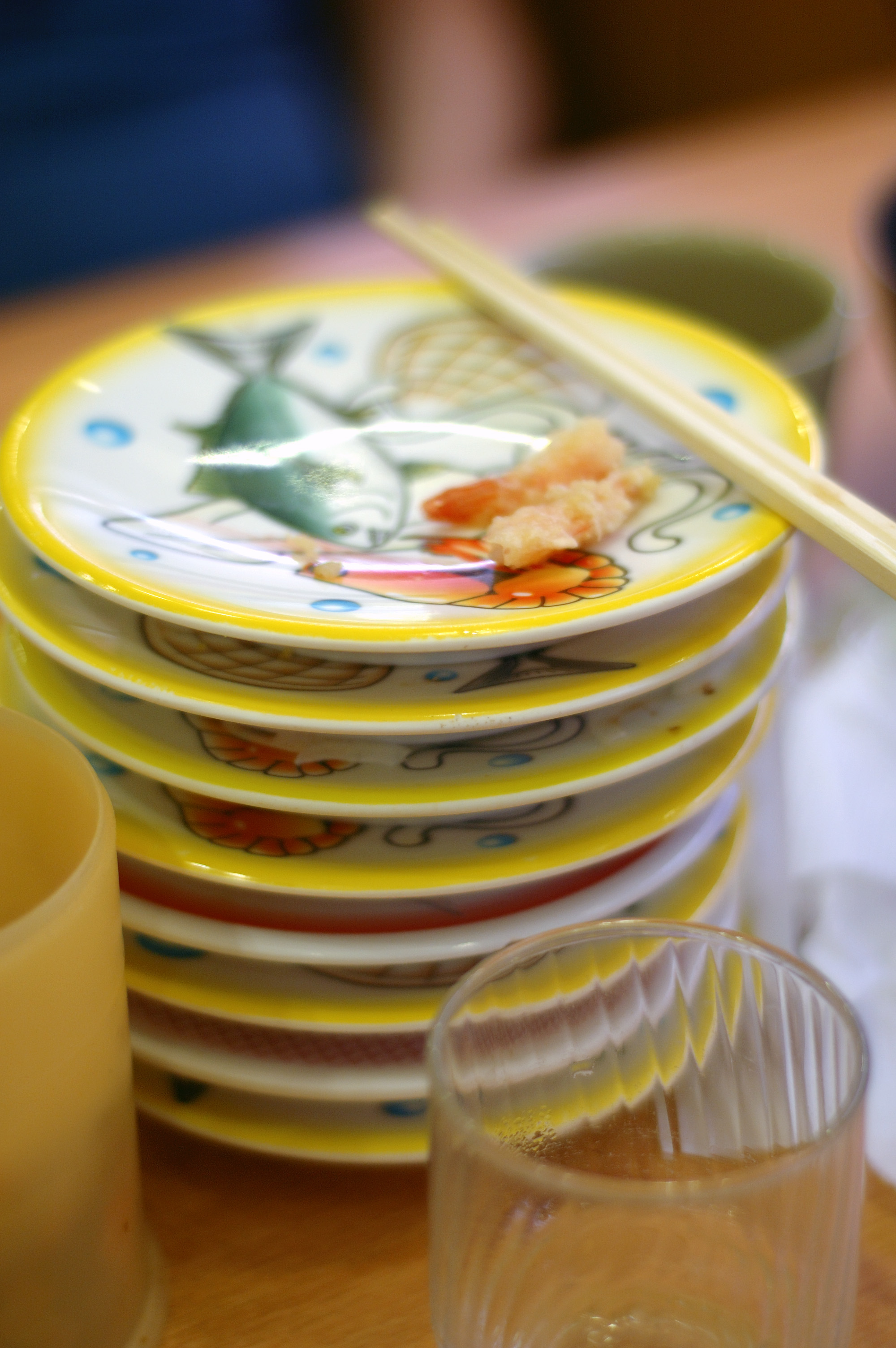 finished